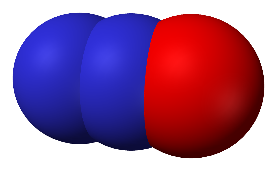 Space-filling model of nitrous oxide, N2O